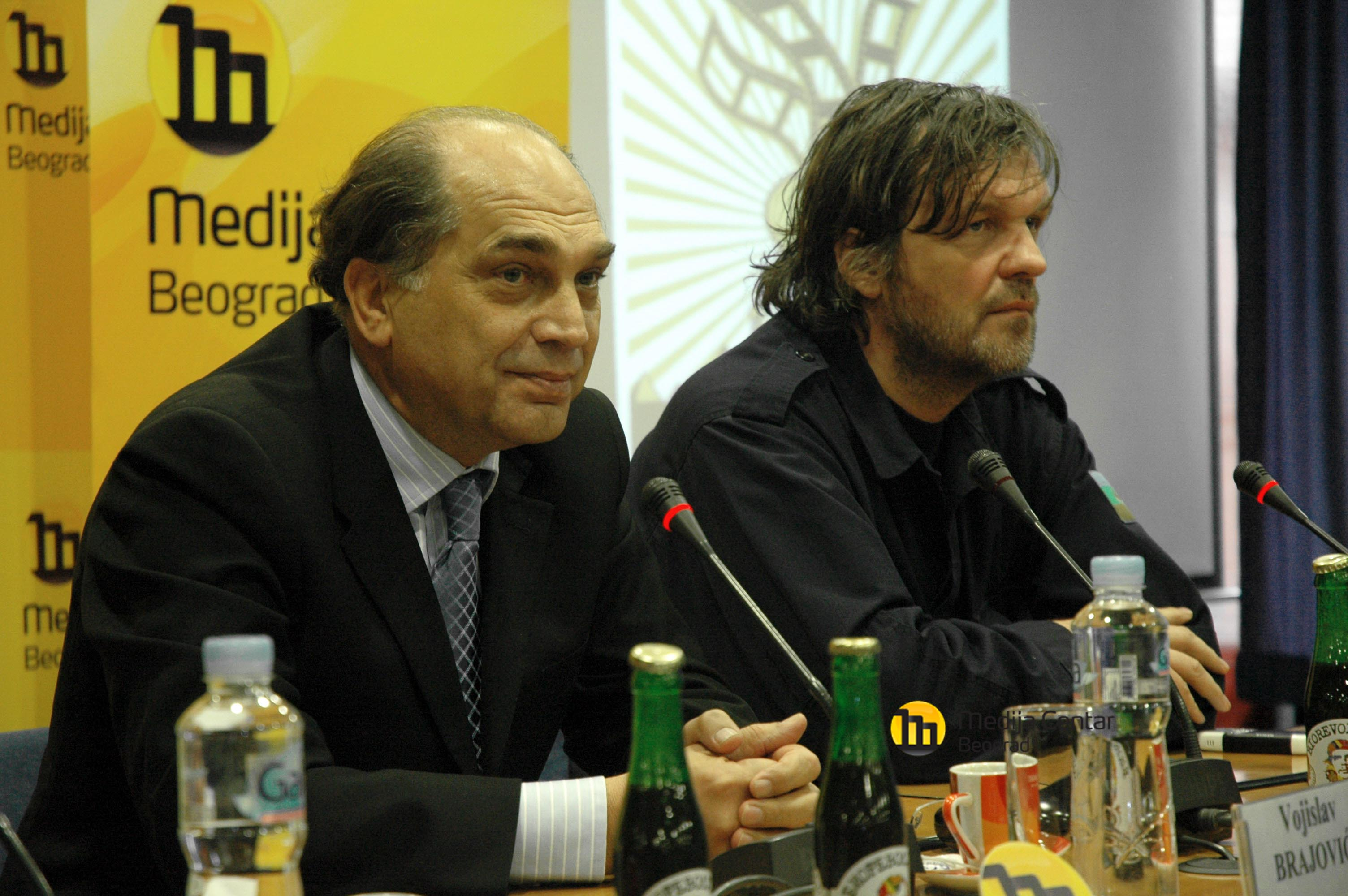 Voja Brajović i Emir Kusturica